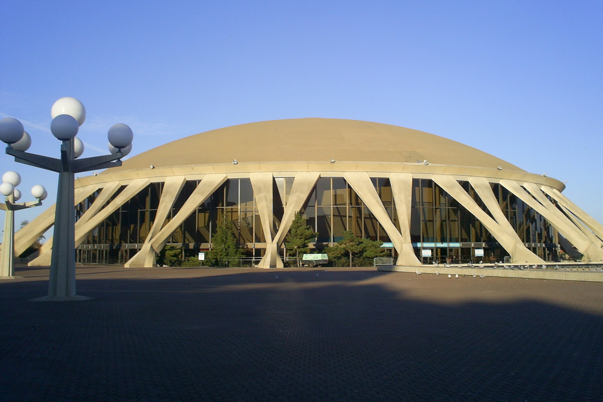 Pier Luigi Nervi’s Norfolk Scope Arena in Norfolk, VA, USA. Built between 1968 and 1971, the design of the arena recalls closely Nervi’s Palazzetto dello Sport in Rome, built for the 17th Olympics which took place in 1960.